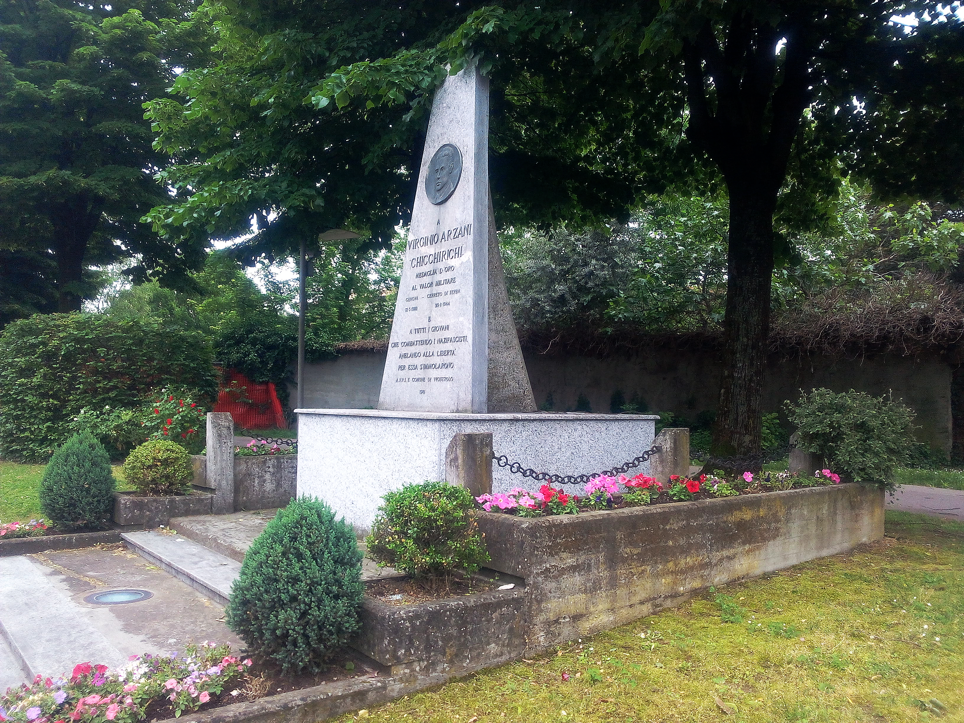 Viguzzolo (AL, Italy): monument to Virginio Arzani